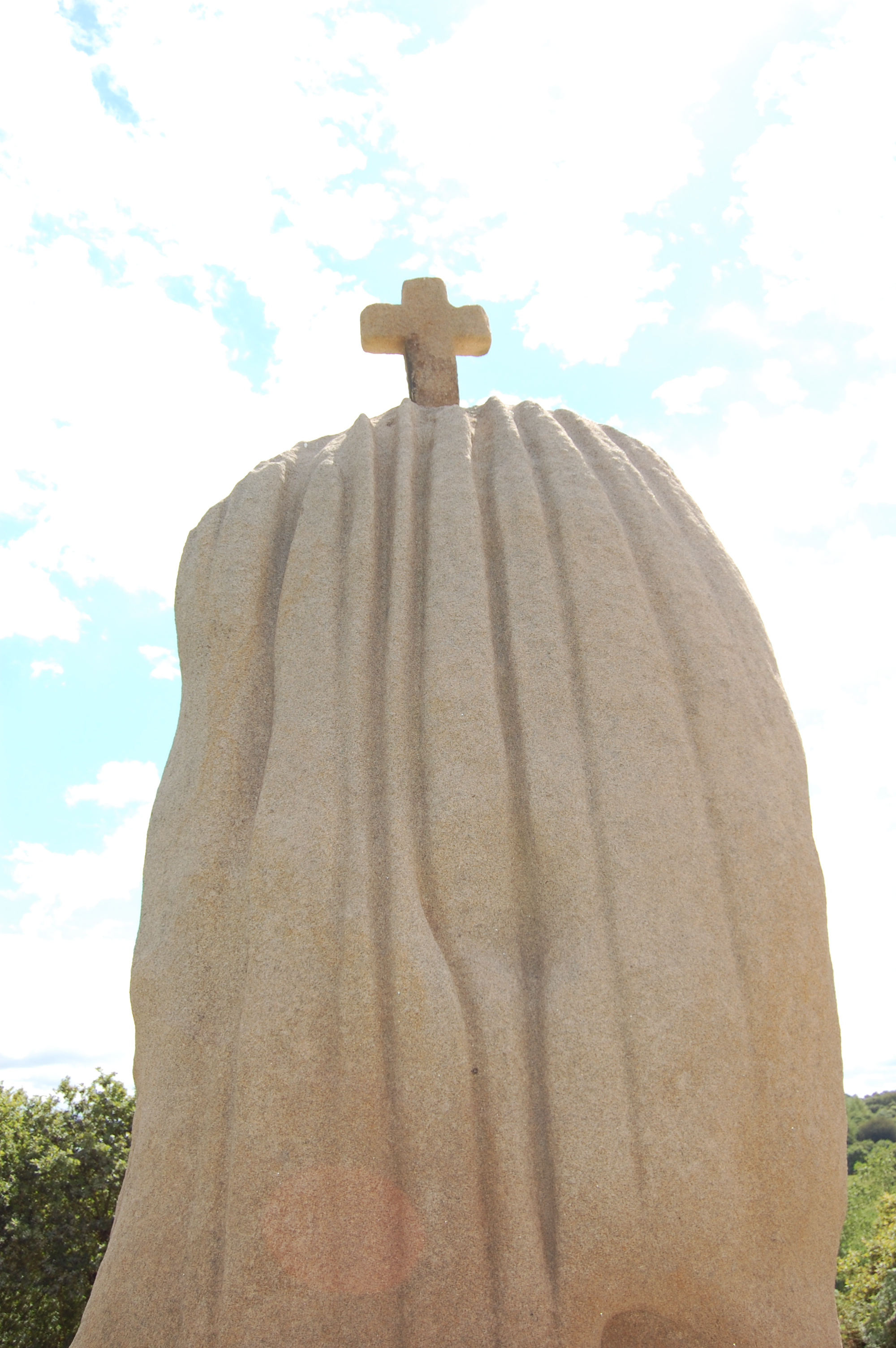 Christianized menhir of Saint-Uzec in Pleumeur-Bodou, France - global view.